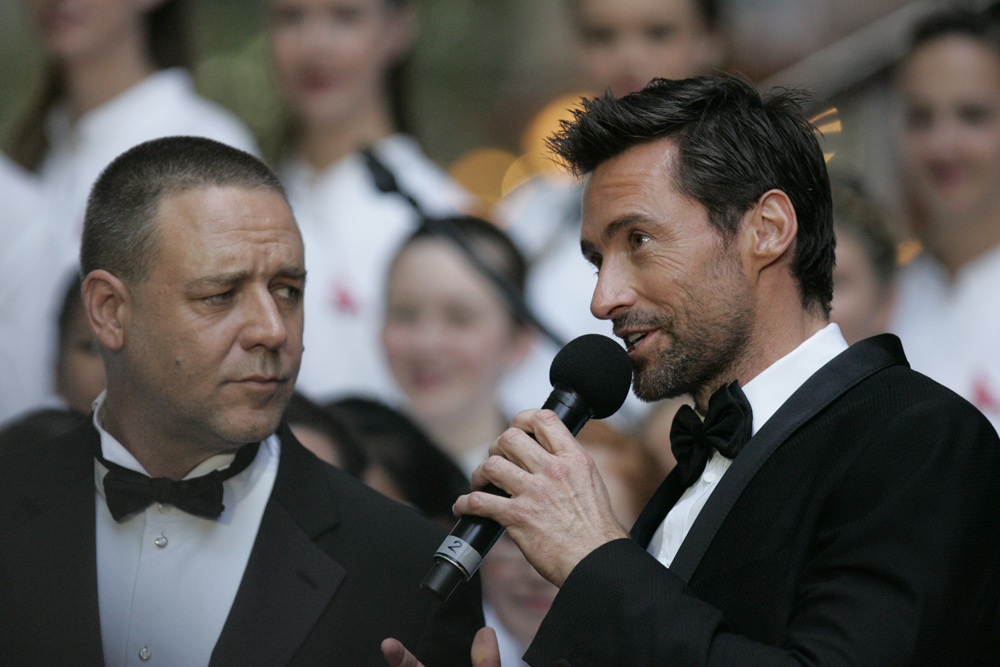 Russell Crowe and Hugh Jackman at the Les Misérables red carpet movie premiere, Sydney, Australia...